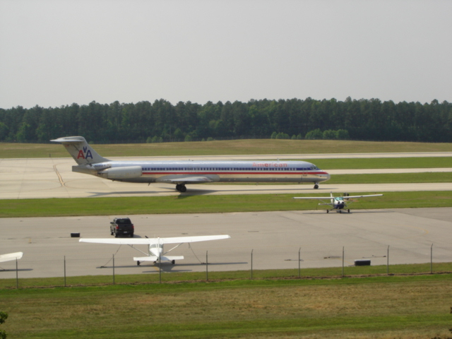 Taken at RDU Observation Park by RJ